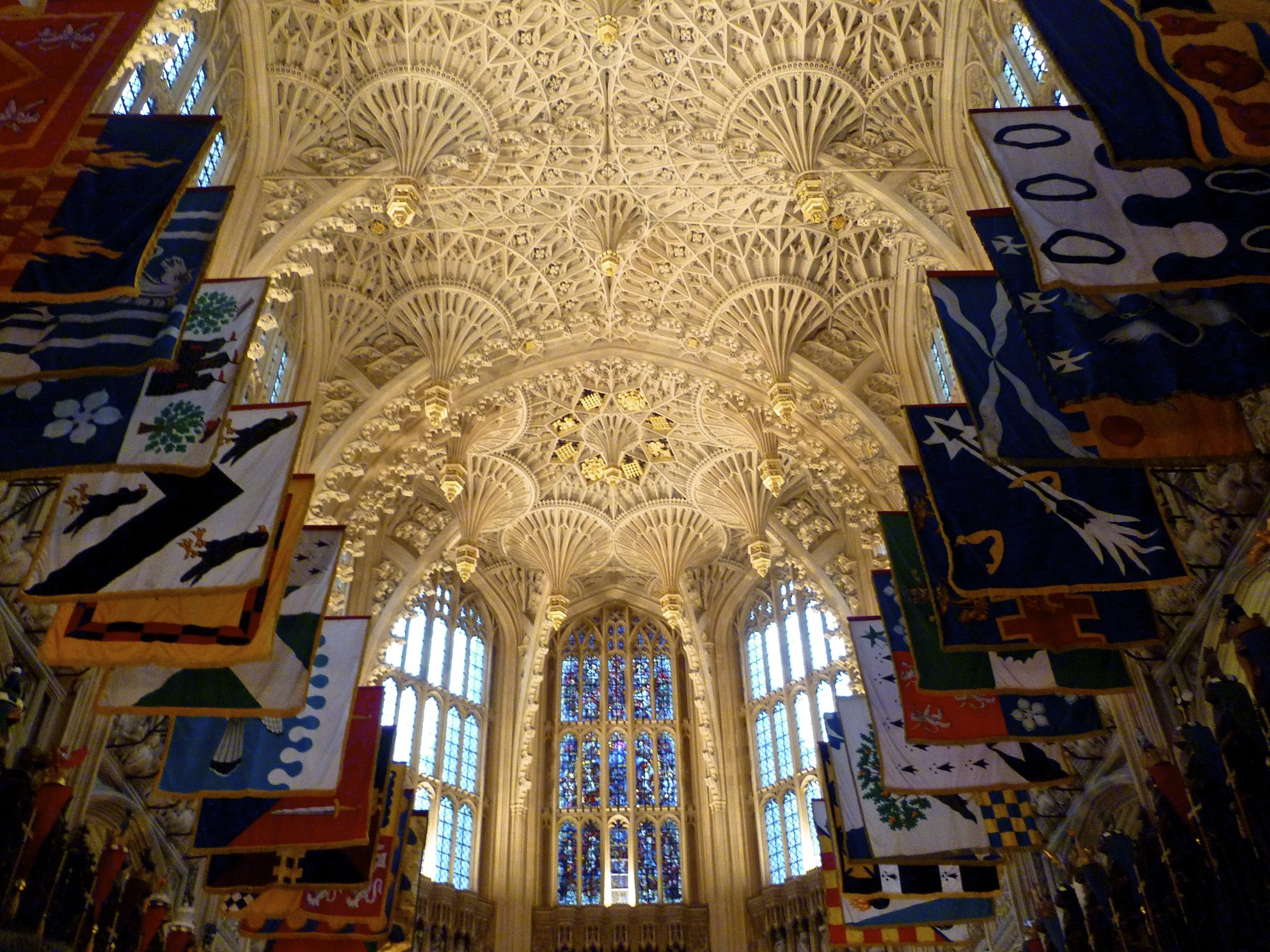 Henry VII's Lady Chapel